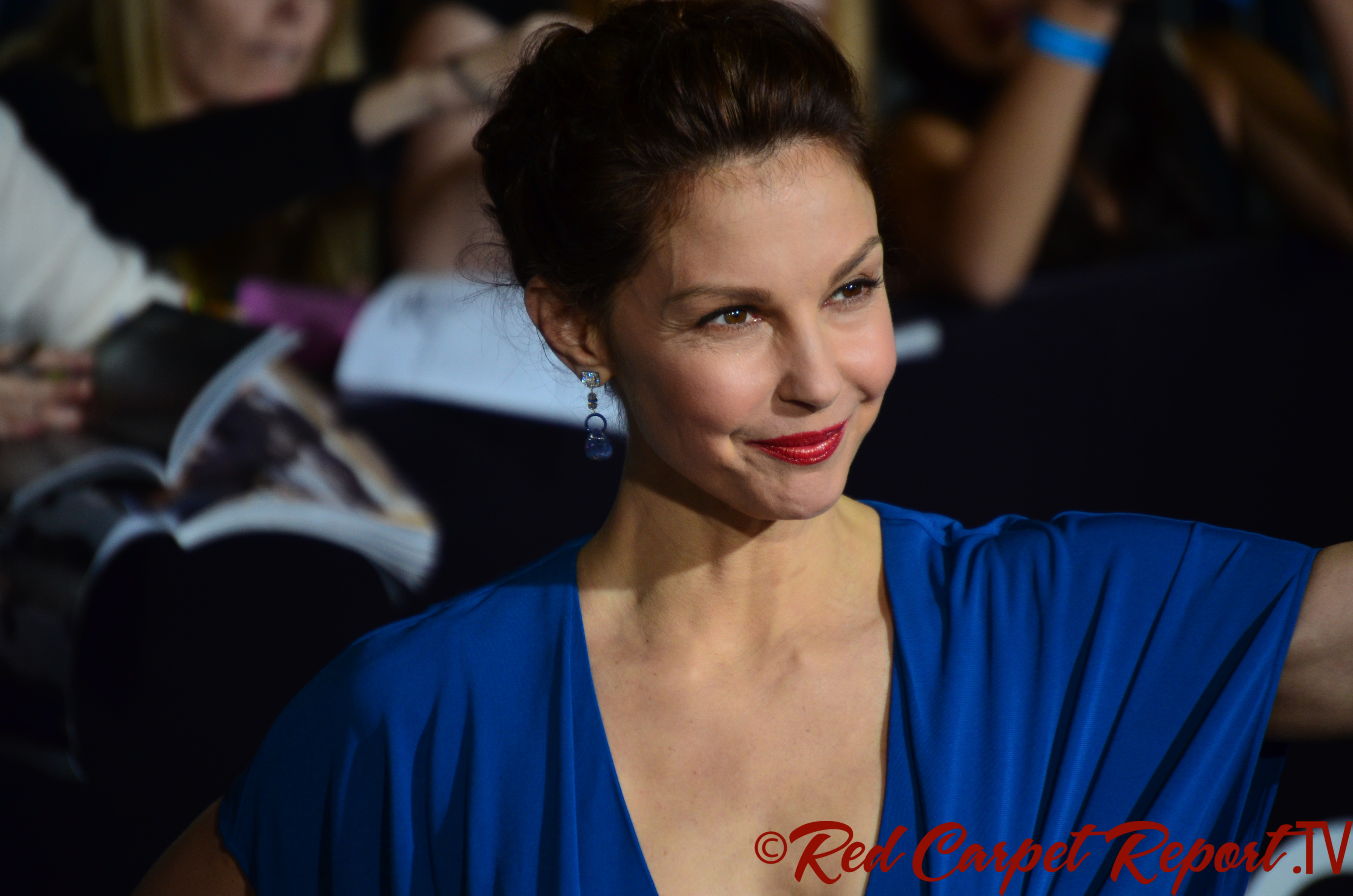 Actress Ashley Judd at the "Divergent" film premiere in Westwood, CA on March 18, 2014